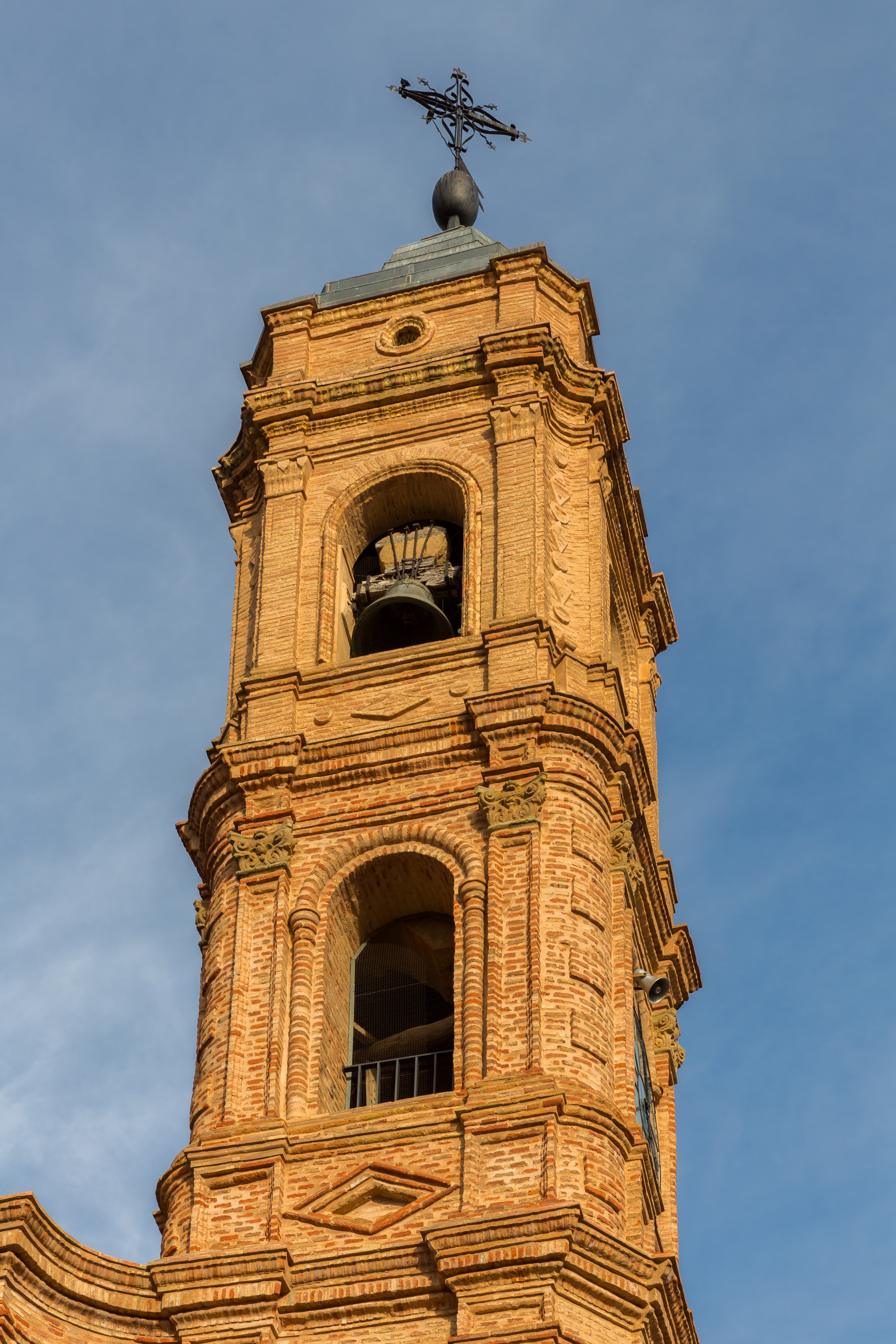 Church of the Assumption, Munébrega, Zaragoza, Spain